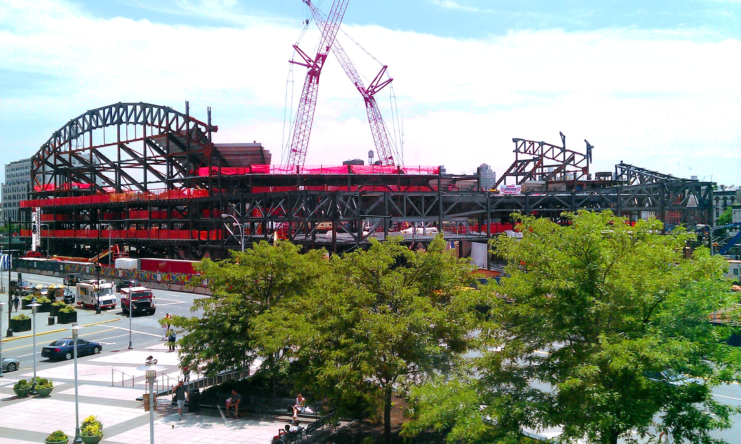 Barclays Center, future home of the Brooklyn Nets.